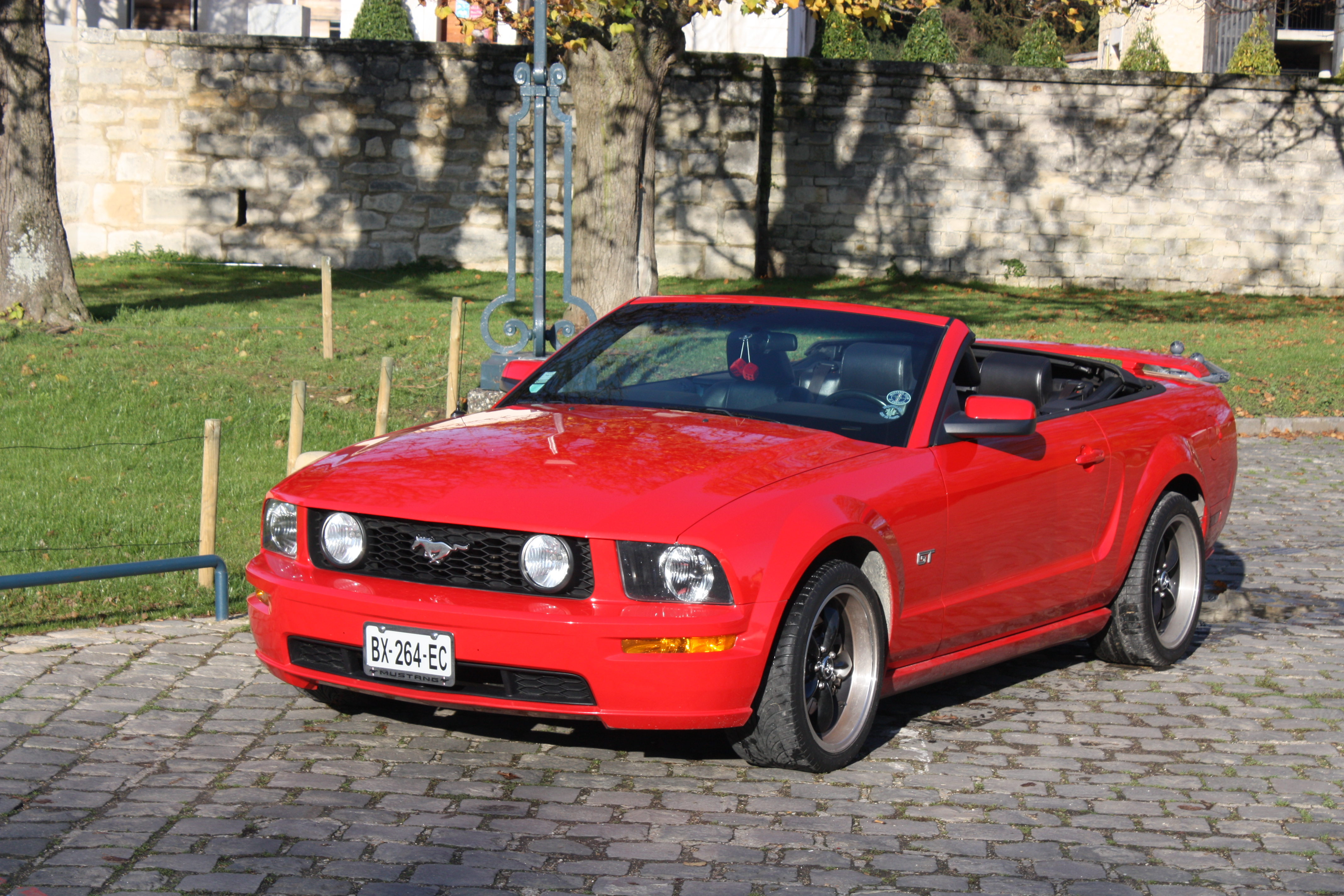 Mustang GT Premium 2005 convertible Red